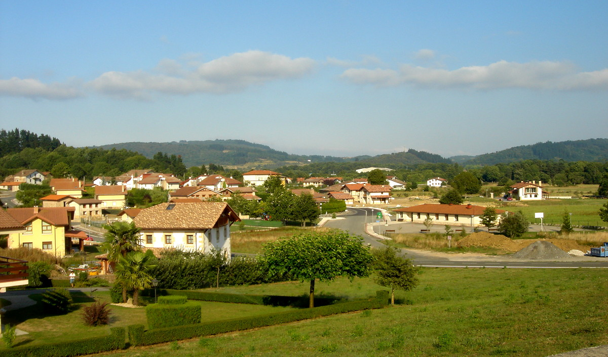 Ametzaga (Araba, Basque Country, Spain)